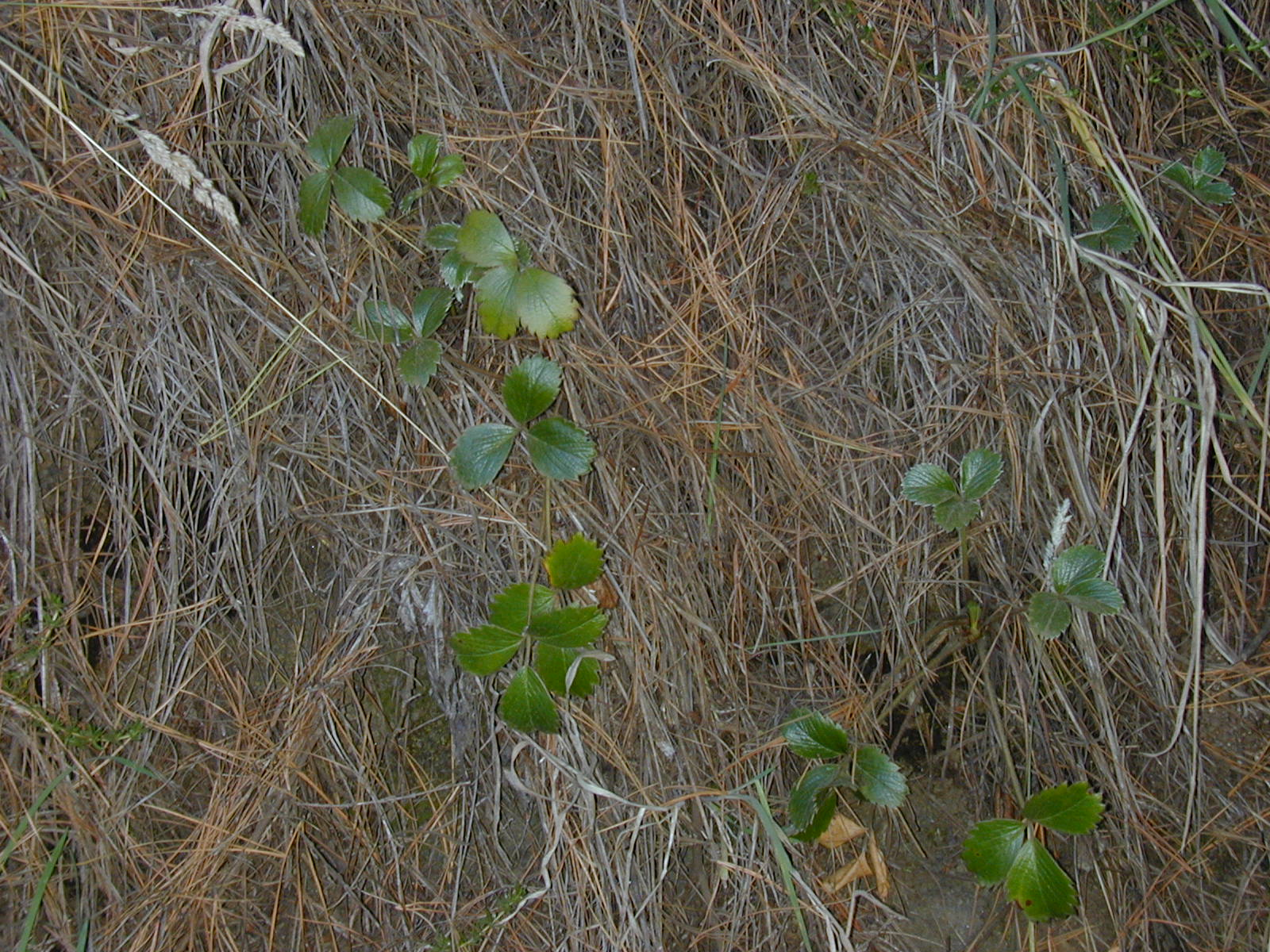 Fragaria chiloensis subsp. sandwicensis (habit). Location: Maui, Polipoli